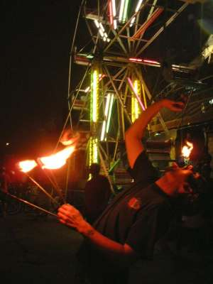 Jim Malina eats fire at the City Museum in St. Louis, MO, USA in 2004.